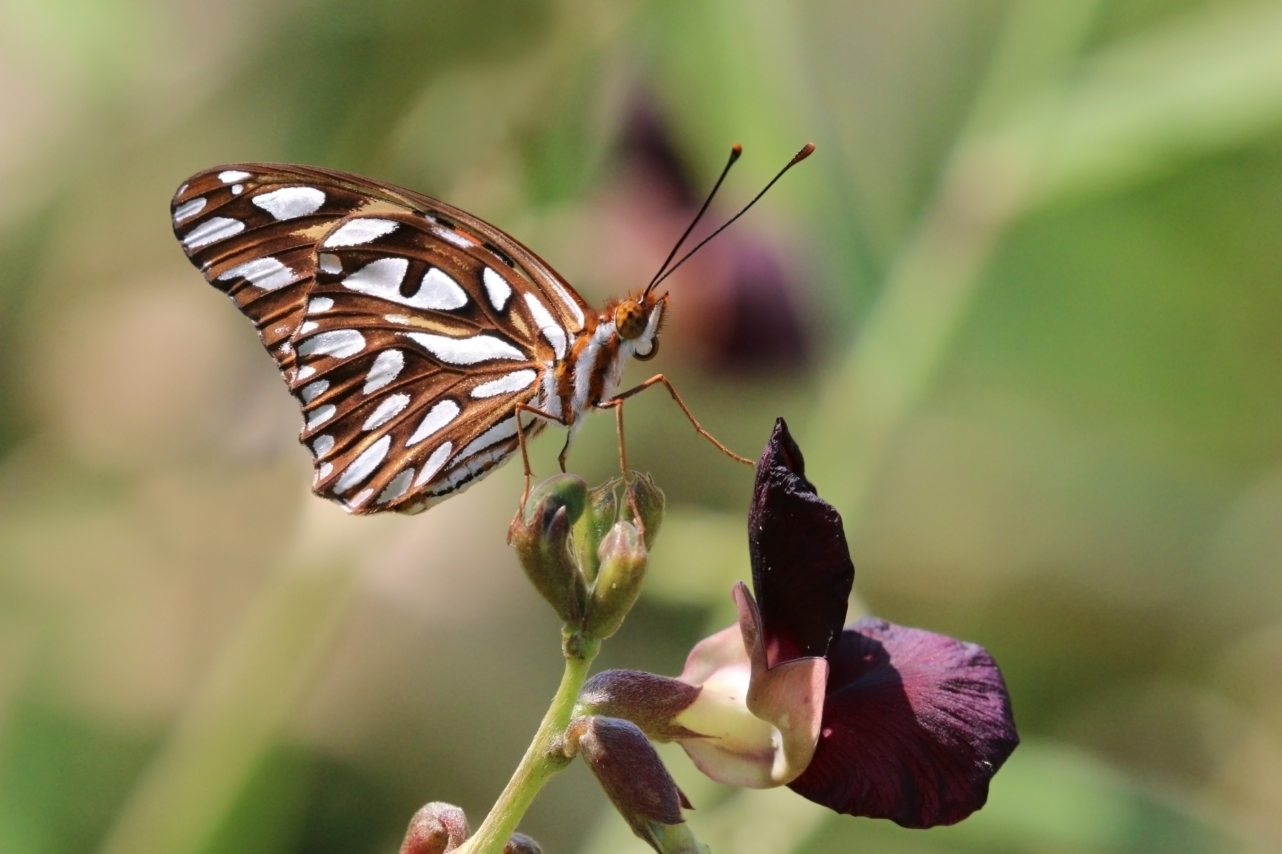 Gulf fritillary (Agraulis vanillae insularis), Cuba